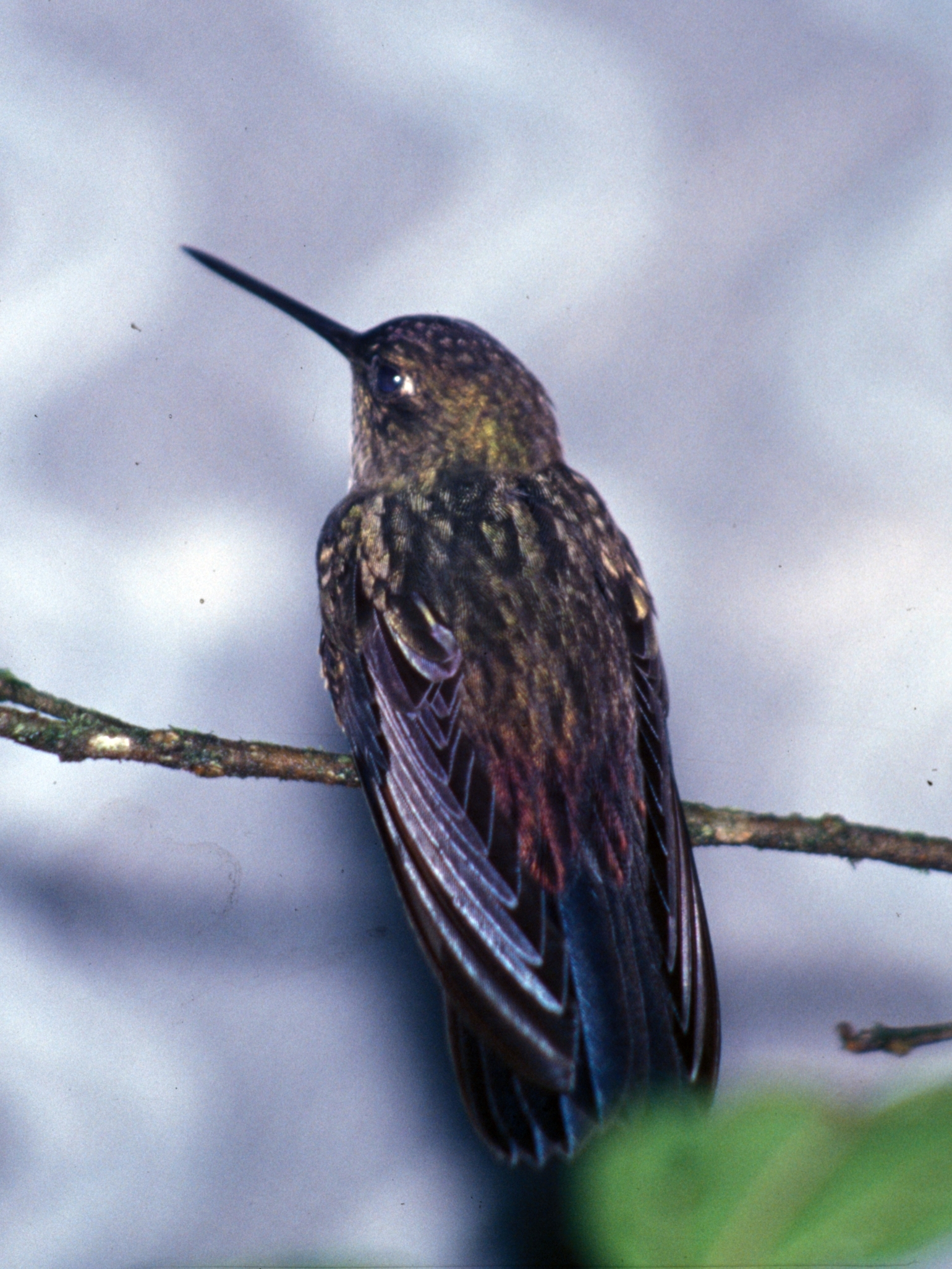 A Greenish Puffleg (Haplophaedia aureliae) from Cordillera del Cóndor, Ecuador.